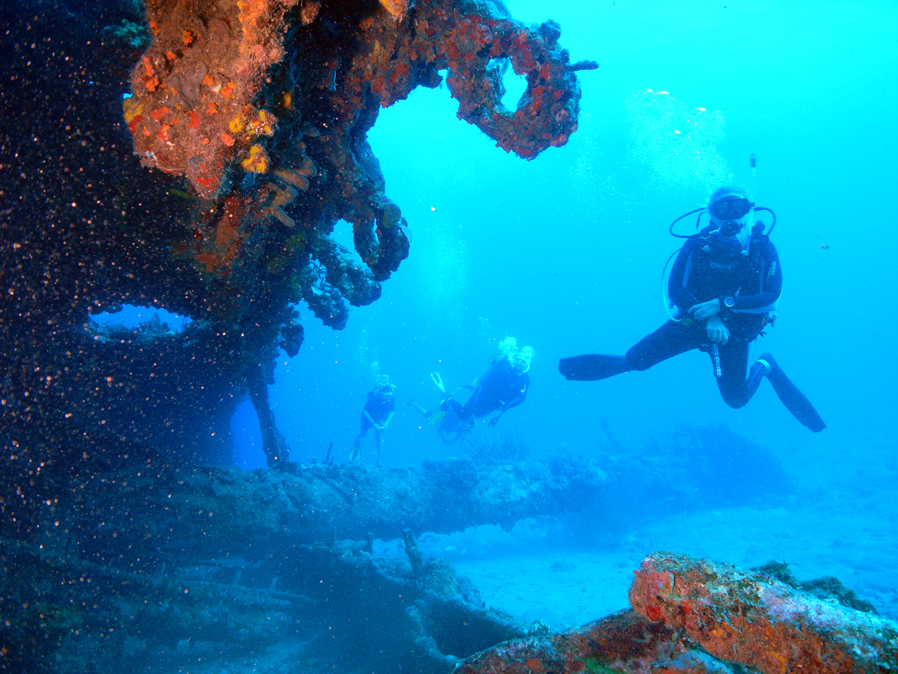 RMS Rhone Wreck with Sail Caribbean Divers